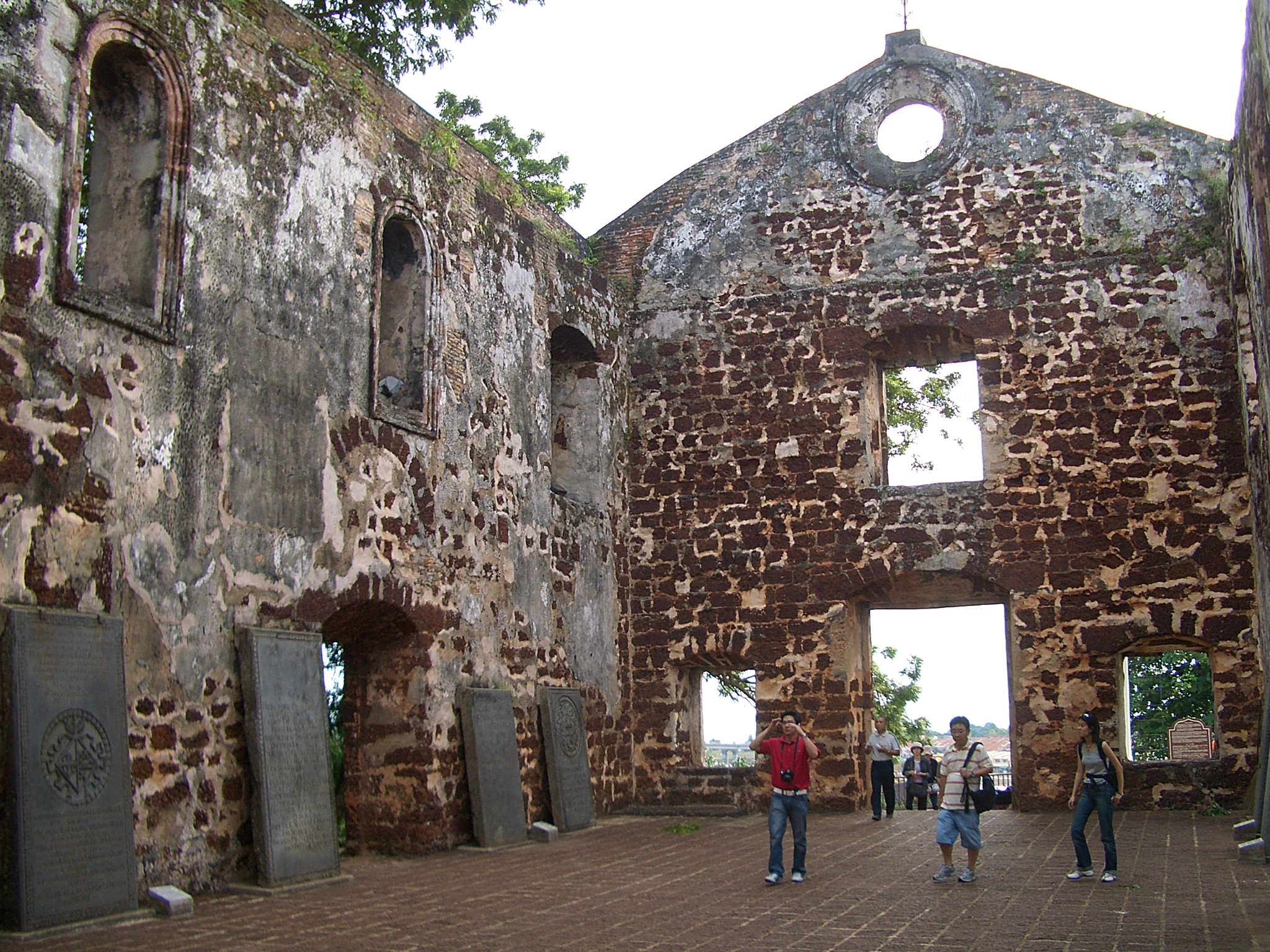 Tourists walking between old Portuguese and Dutch gravestones in Melaka's ruined St Paul's church